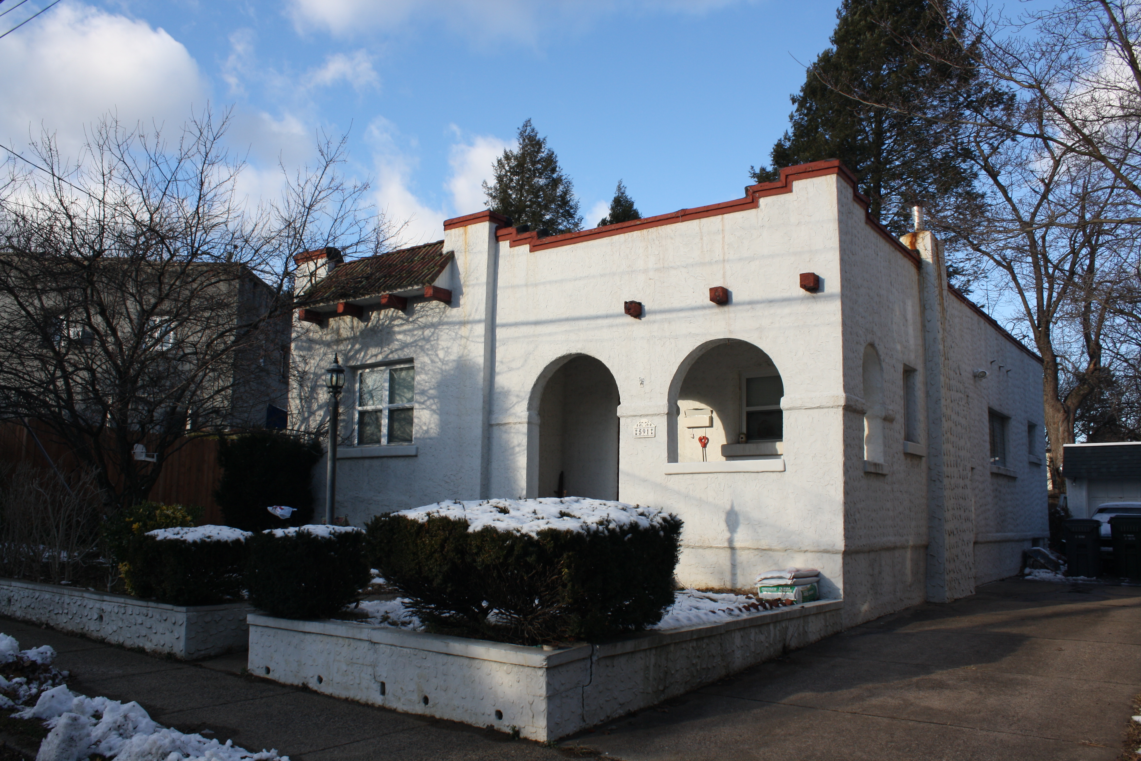 Hollywood, an unincorporated community in the southern portion of Abington Township, Montgomery County, Pennsylvania, United States. The 174-home neighborhood was built from 1928 to 1940s in pastel colors with flat roofs, similar to Spanish-style homes in the Los Angeles area. Fox Chase Rd. 591.